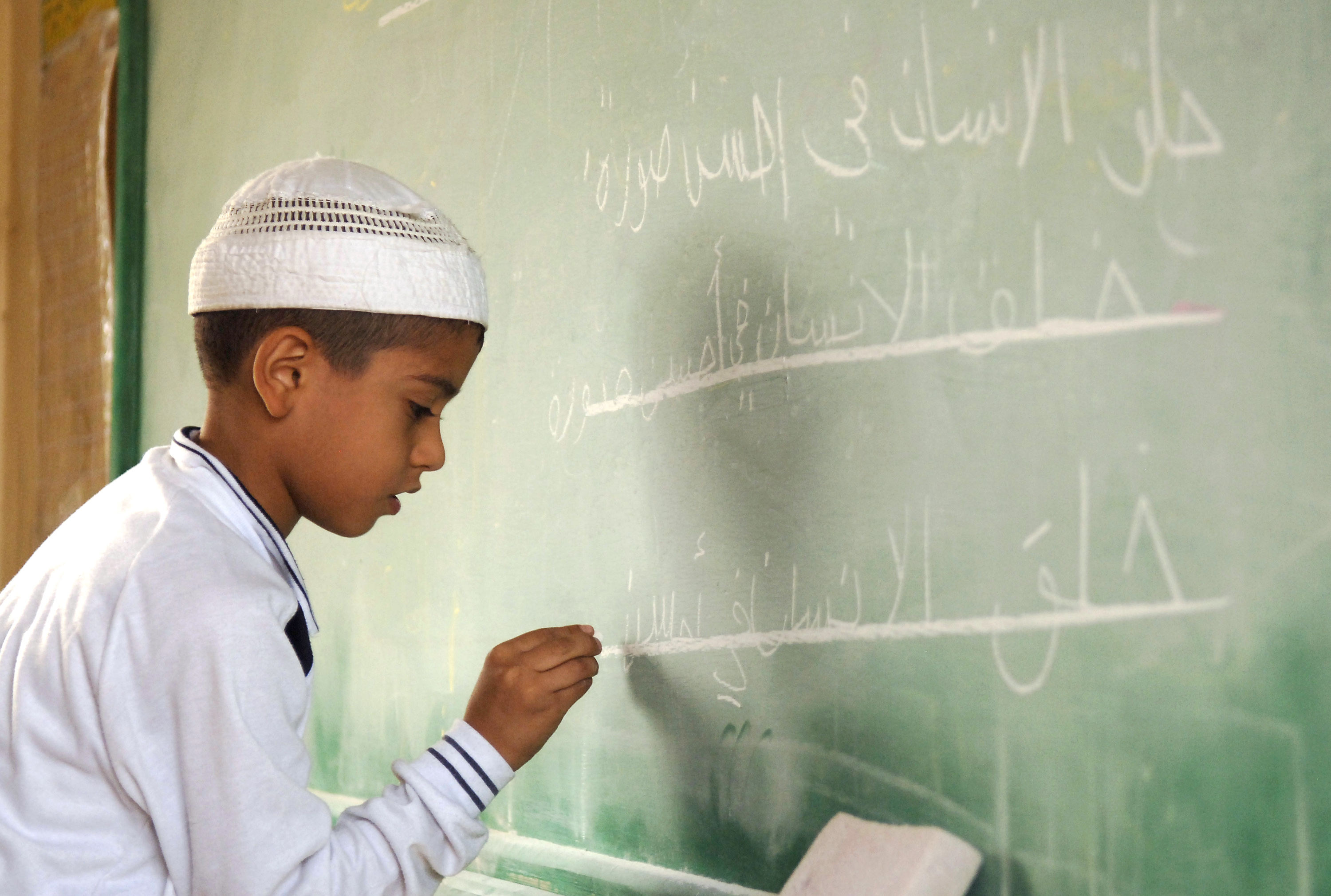 Iraqi students receive school supplies: A young Iraqi boy practices his writing at a primary school in the Bayaa District of Baghdad, Iraq; date: October 31, 2006.